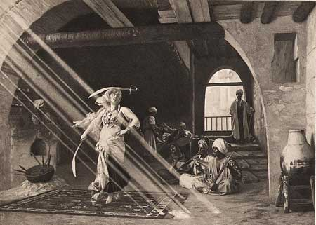 Heliogravure Egypt - Sword dancer